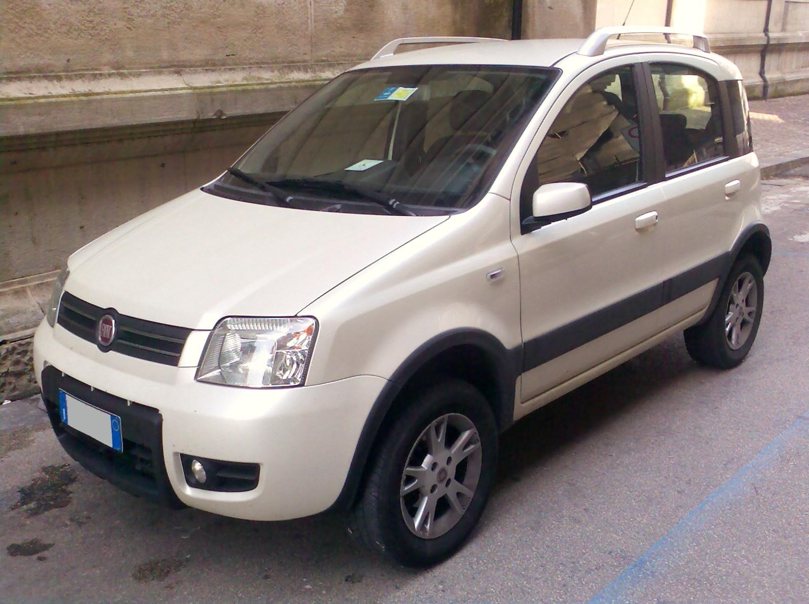 Panda Glam